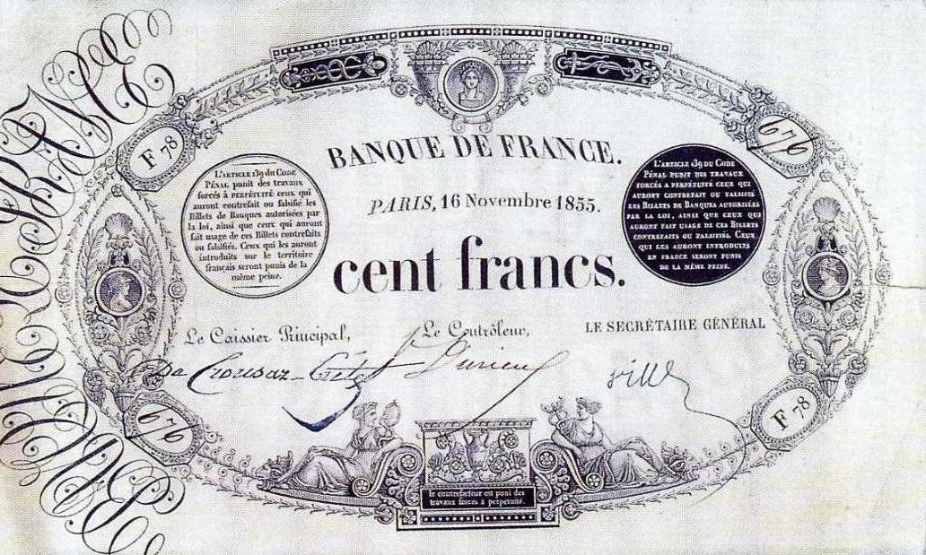 French Banknote 100 francs black 1848